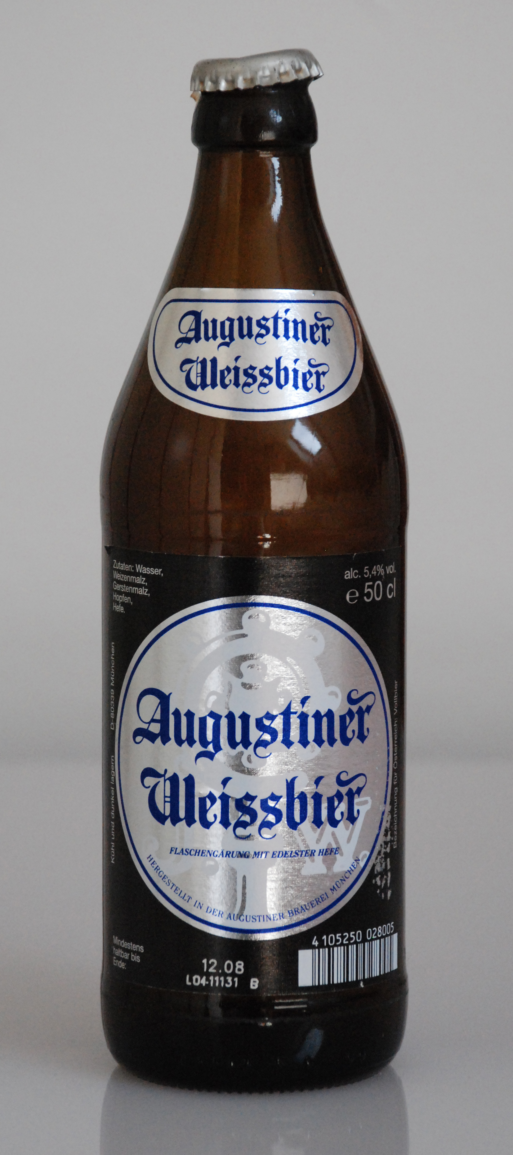 Empty bottle of Augustiner Weissbier.